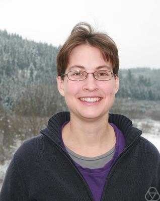 German mathematician Anna Wienhard at the Mathematical Research Institute of Oberwolfach, 2010